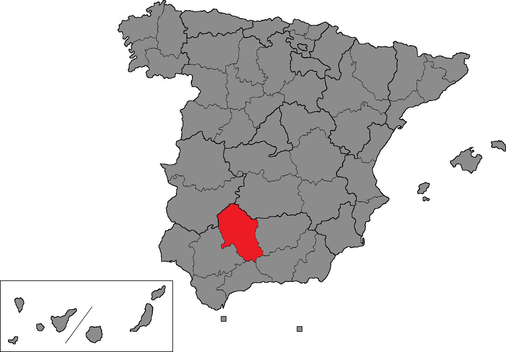 Spanish Congress of Deputies district of Córdoba.